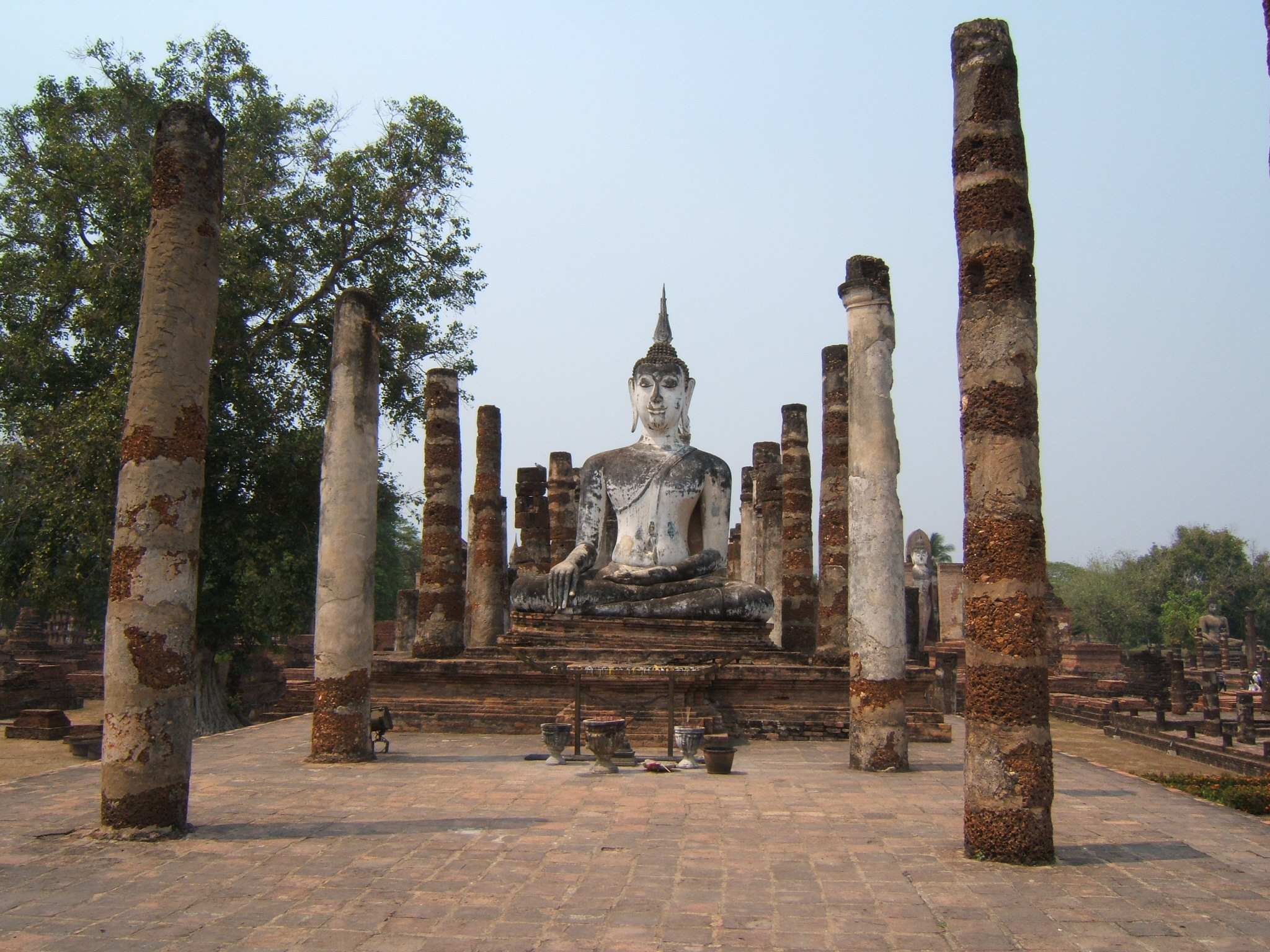 Buddha-Bildnis im Wat Mahathat, Sukhothai, Thailand